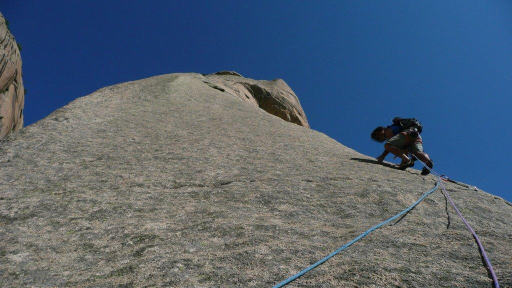 Punta di u Corbu: Le dos de l'éléphant (the elefant's back)